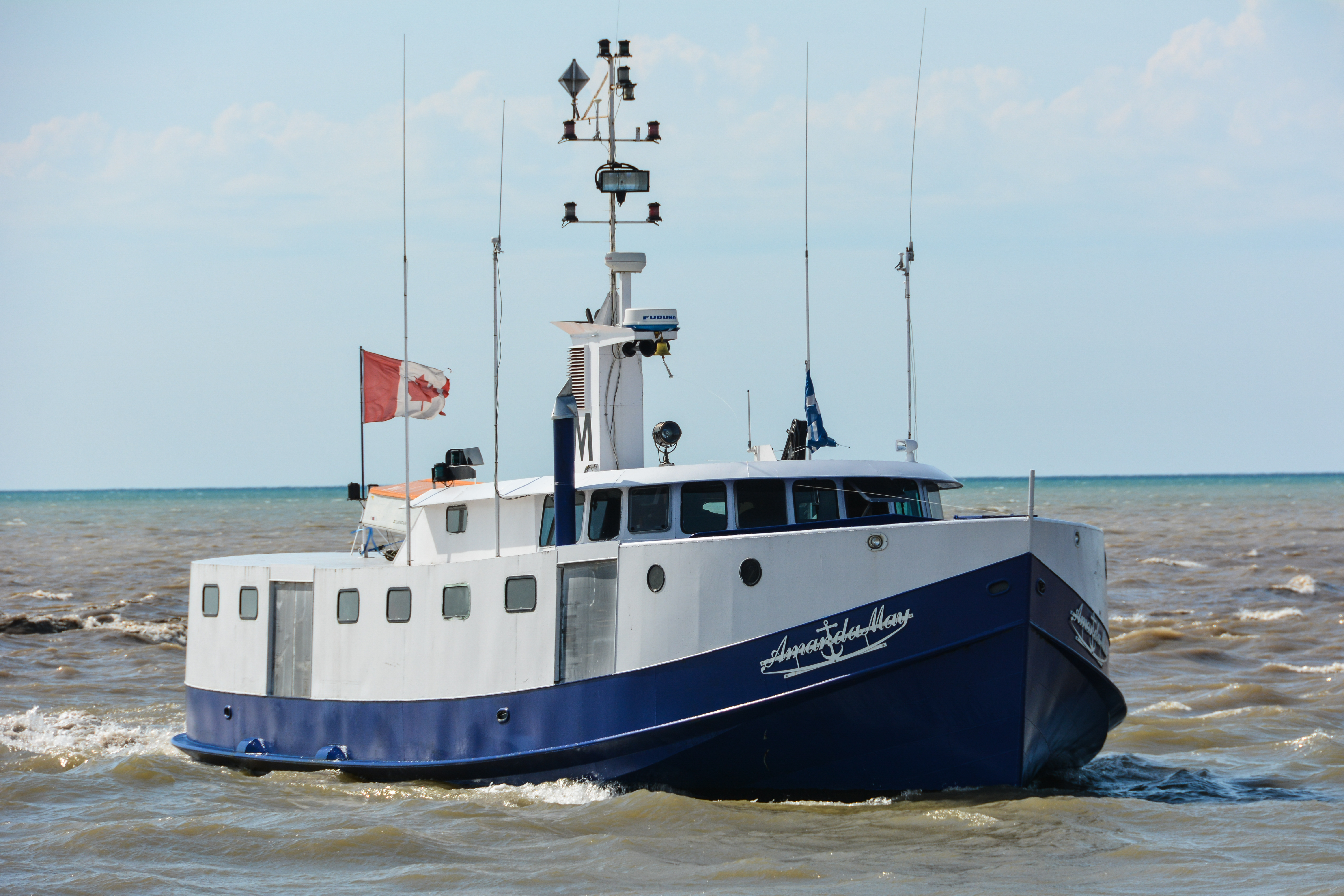 Modern fish tug, AMANDA MAY of Windsor coming off Lake Erie into harbor at Port Burwell, Ontario Canada - April 19, 2015.